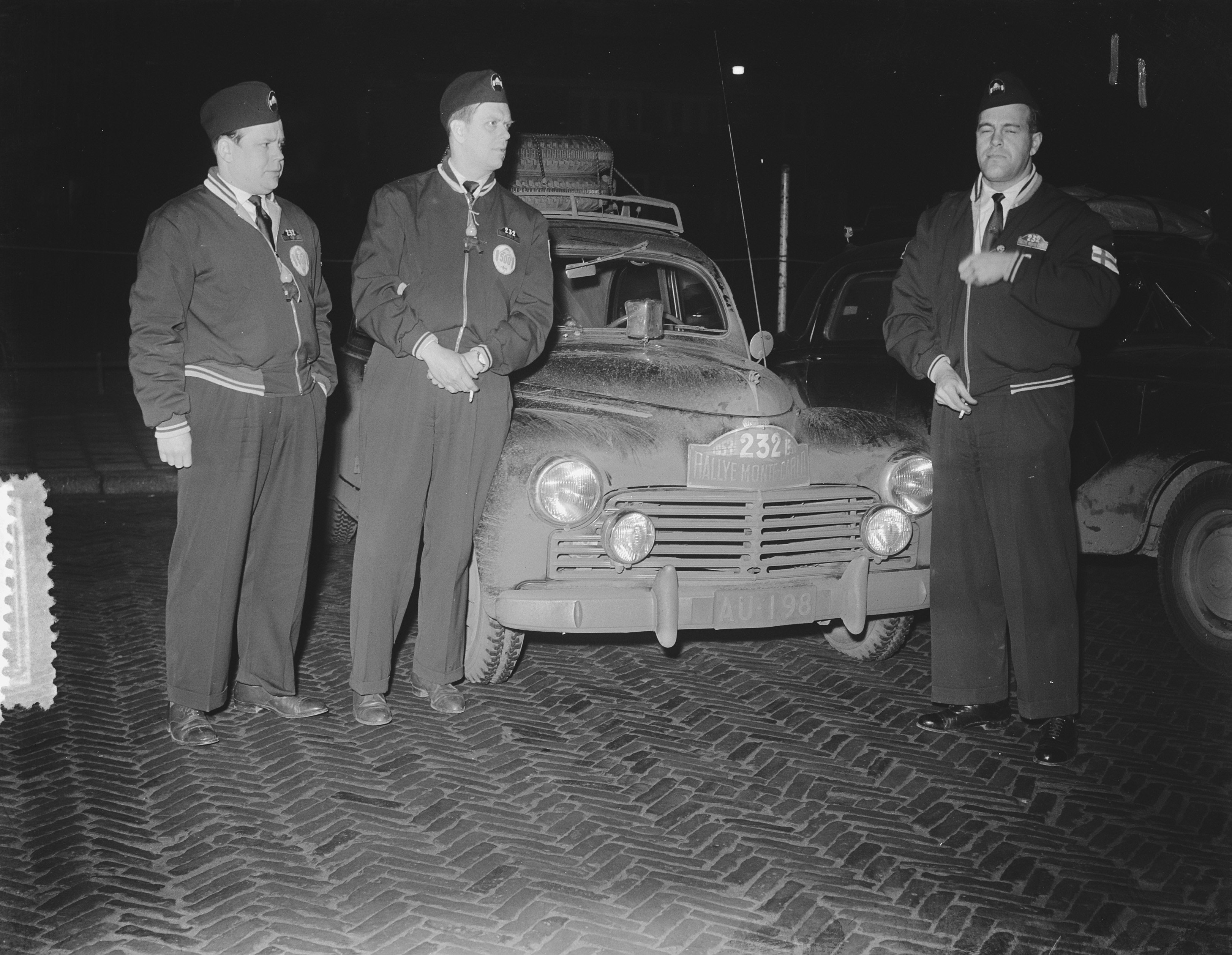 Entry #232 at passport checking at the 1953 Rallye Monte Carlo was a Peugeot 203 (finnish "AU-198") entered by finns Leo Mattila and Fred Geitel (car designer, "KG Special"). [1]. Not sure if the drivers are in this picture...